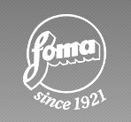 Logo taken from the official web-site only for indication and not for commercial use